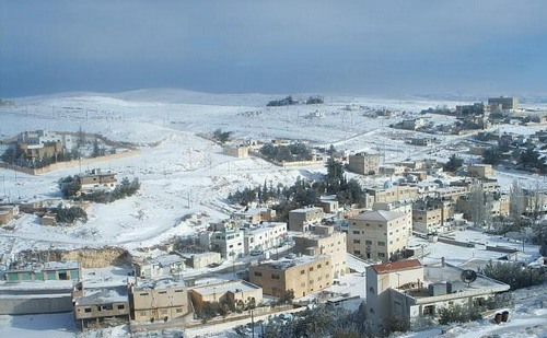 Shoubak winter